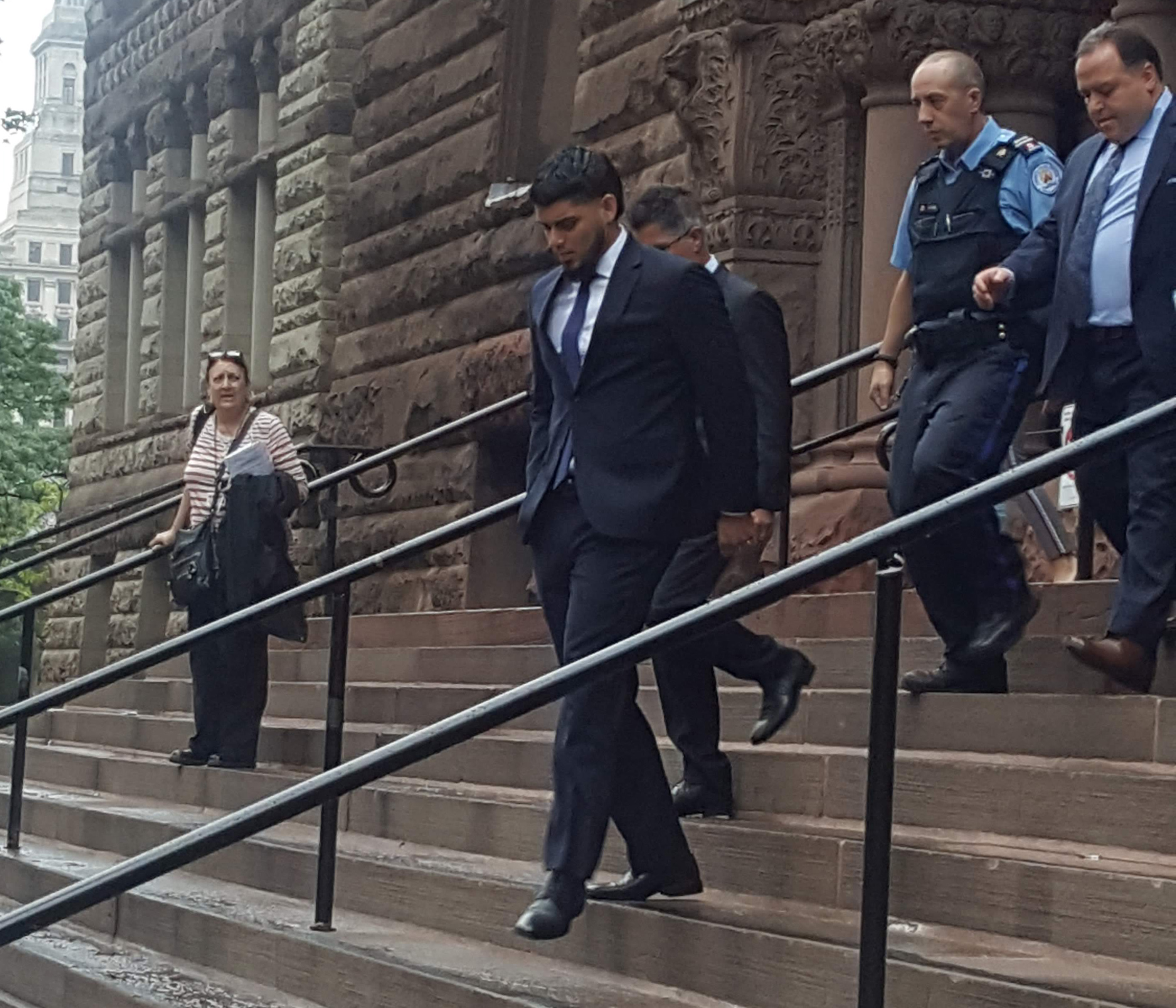 Major League Baseball pitcher Roberto Osuna leaves the Old City Hall courthouse in Toronto, Ontario after appearing before the court to face assault charges on September 25, 2018.